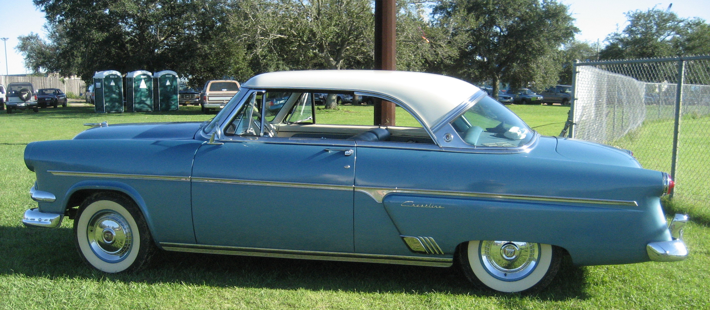 1954 Ford Victoria photographed at the Audubon Park Butterfly, New Orleans.